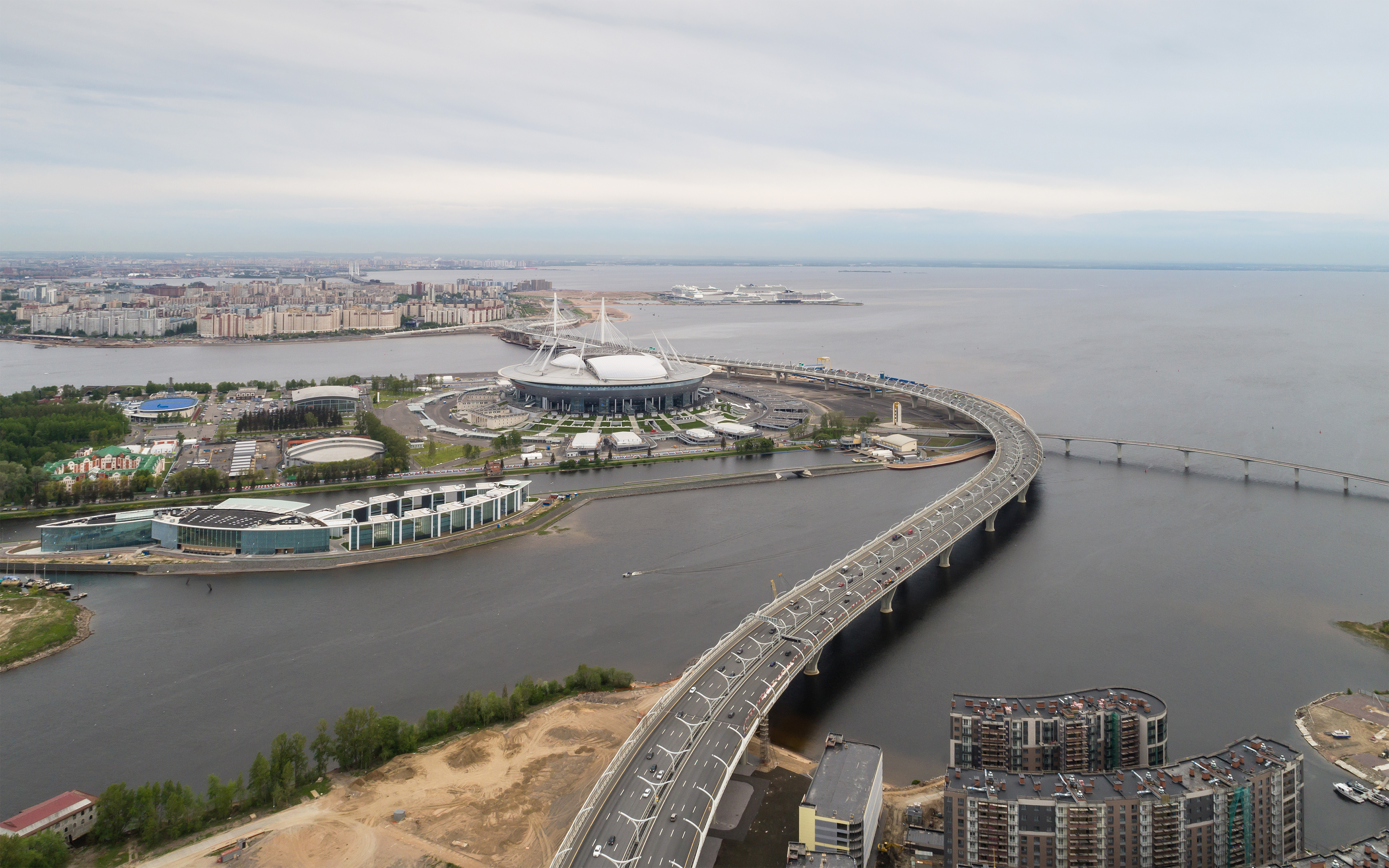 Aerial photo of Krestovsky Stadium in Saint Petersburg (Russia).